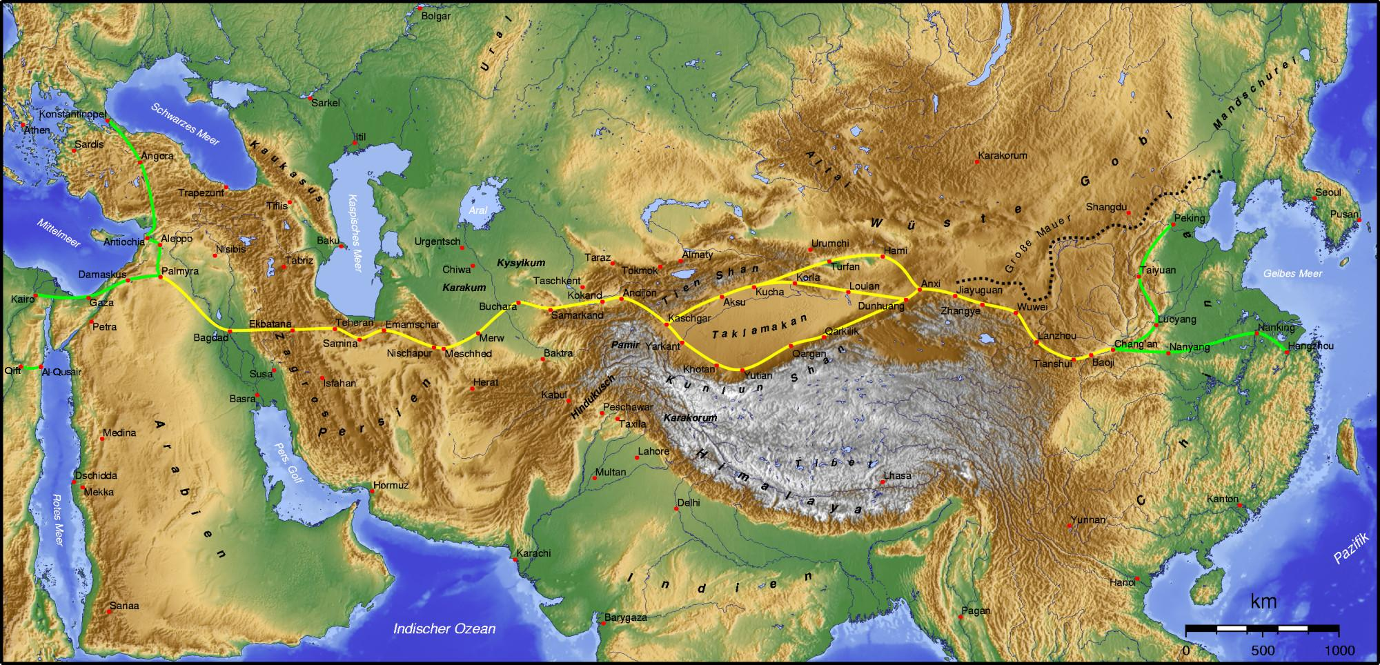 Added Wadi Hammamat: from Al-Qusair to Qift.